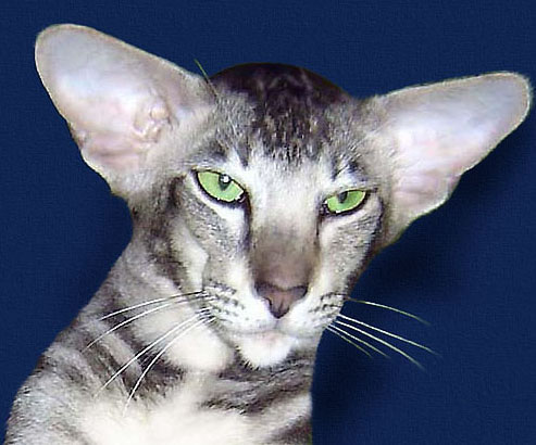 Photo of Shasa Zuri, Blue Silver Tabby Blotched Oriental male (photo taken with Sony DSC-973 camera)